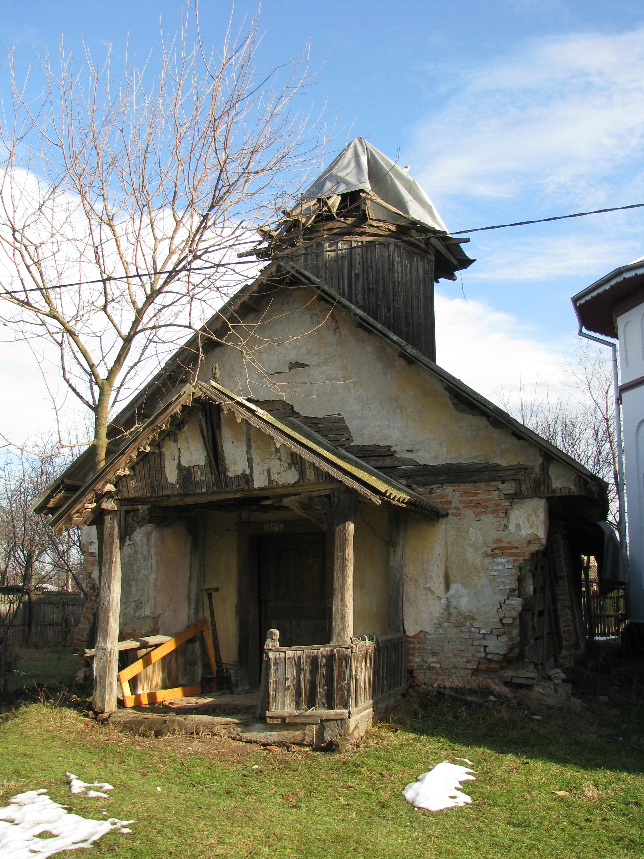 Wooden church "Nașterea Maicii Domnului" from Vișina village, Vișina commune, Dâmbovița county, Romania